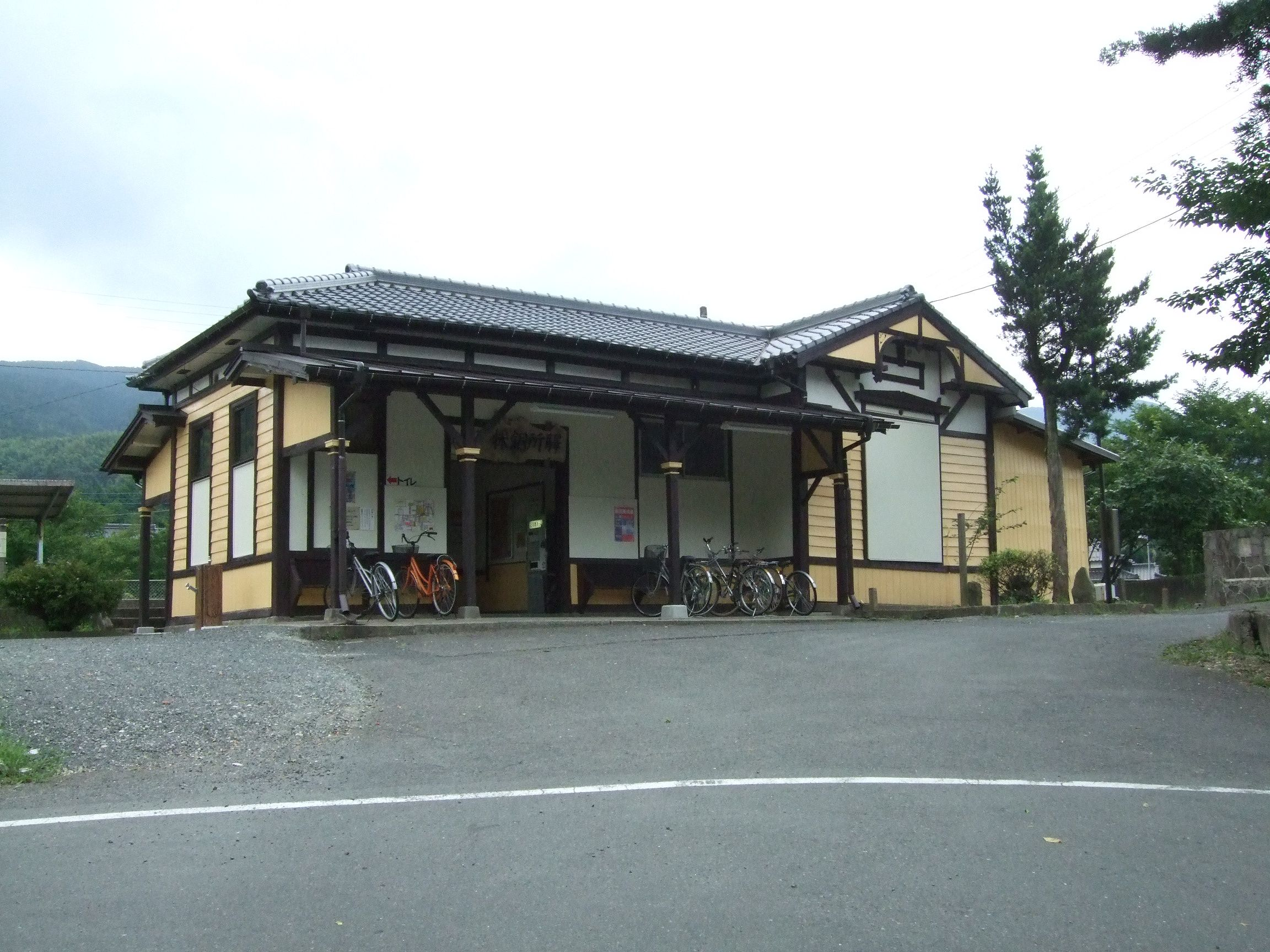 Saidōsho Station, Hitahikosan Line, Kyushu Railway Company.